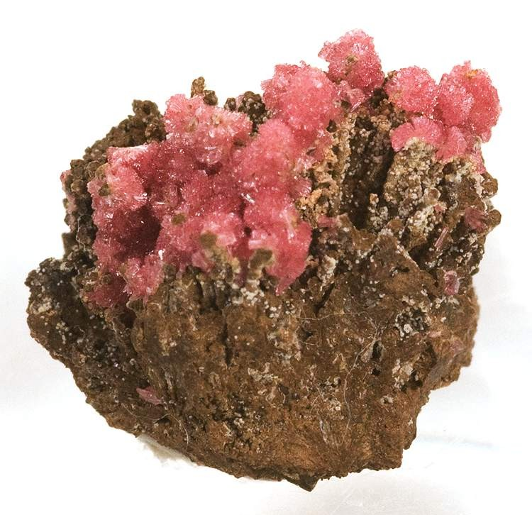 Miguelromeroite Locality: Veta Negra Mine, Pampa Larga district, Tierra Amarilla, Copiapó Province, Atacama Region, Chile (Locality at ) Size: 1.5 x 1.3 x 1.0 cm. Originally sold as Villyaellenite, these specimens have now been identified as miguelromeroite (IMA2008-066). This beautiful and super-rich thumbnail is aesthetically covered with sprays of gemmy, lustrous, vivid pink crystals of miguelromeroite crystals and is from the 1997 find by Terry Szenics at the Veta Negra Mine of Chile.